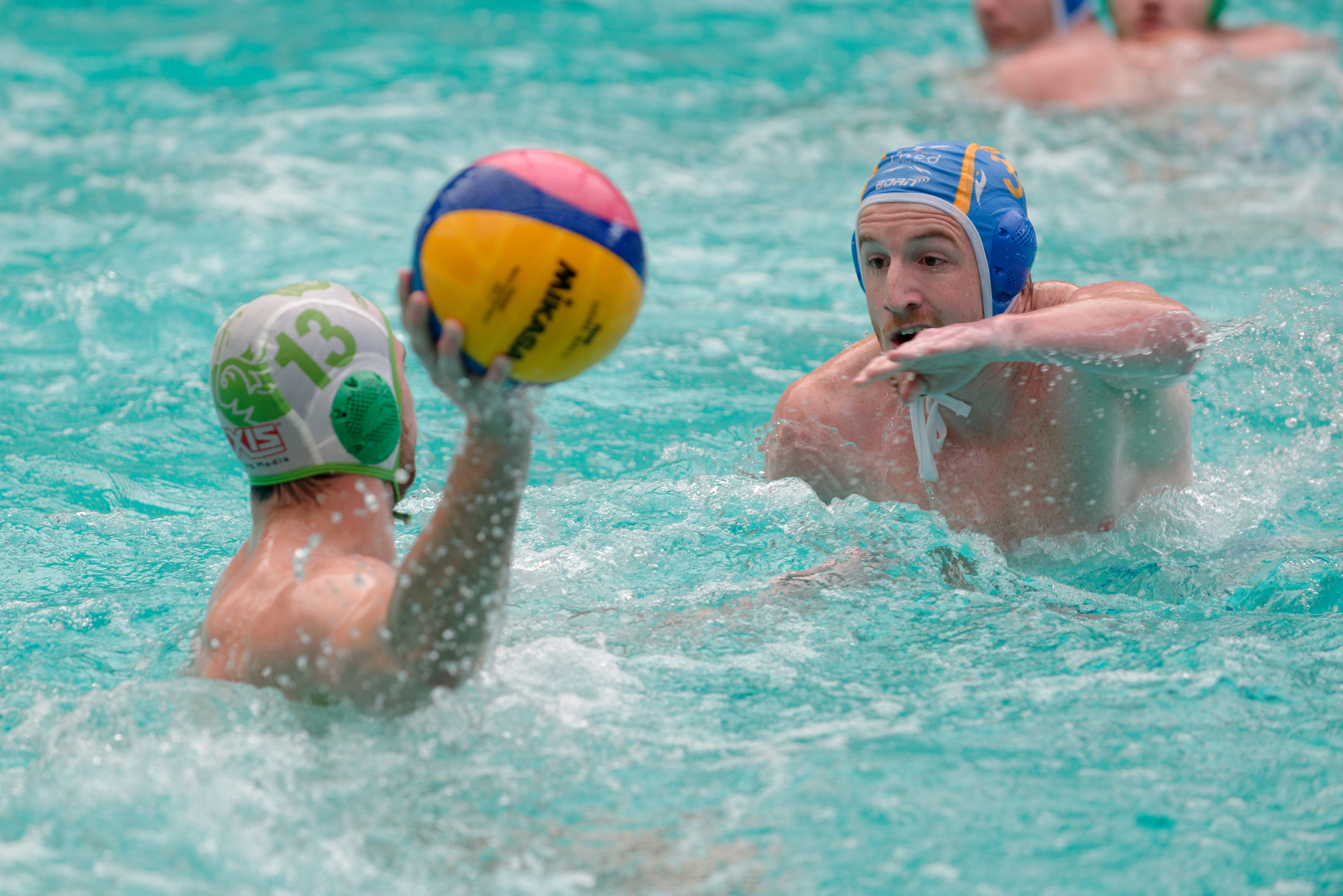 DFC Sète's Ivan Delaš (green) prepares to throw the ball as FNC Douai's Thibaut Blancher (blue) attempts to block in their quarter-final of the 2014 League Cup at the Georges Vallerey swimming pool in Paris.